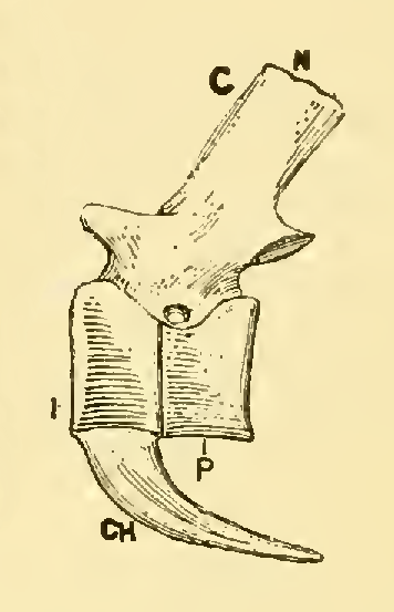 An illustration from The Osteology of the Reptiles